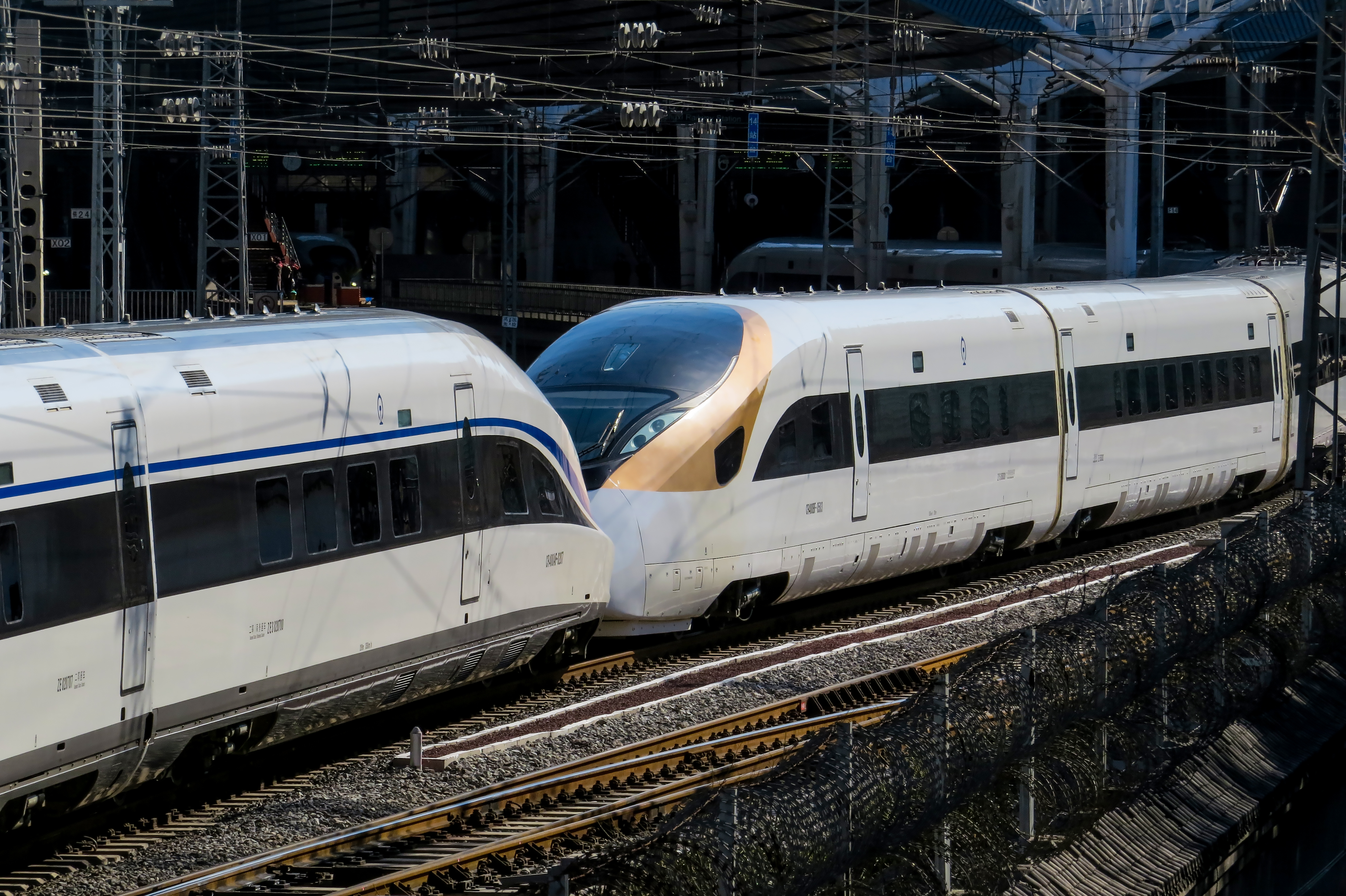 G65 to Guangzhou South. China Standardized EMU has one significant feature: double-heading for different models, something like E5+E6 on Tohoku Shinkansen. And now the "Century Kiss" starts from Beijing, and all the way to Guangzhou! Cheers!